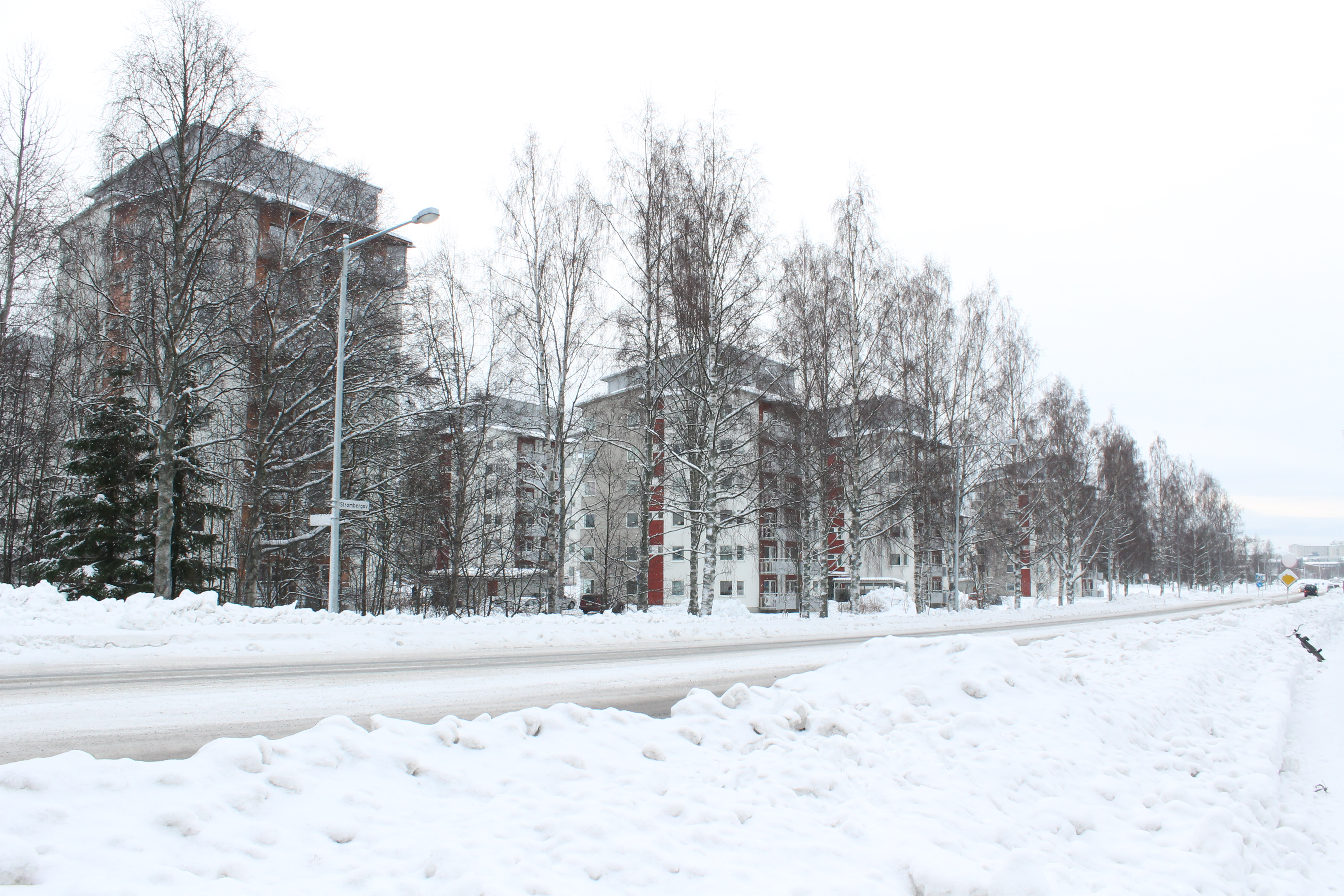 Road "Strombergs väg" in Umeå, Sweden.